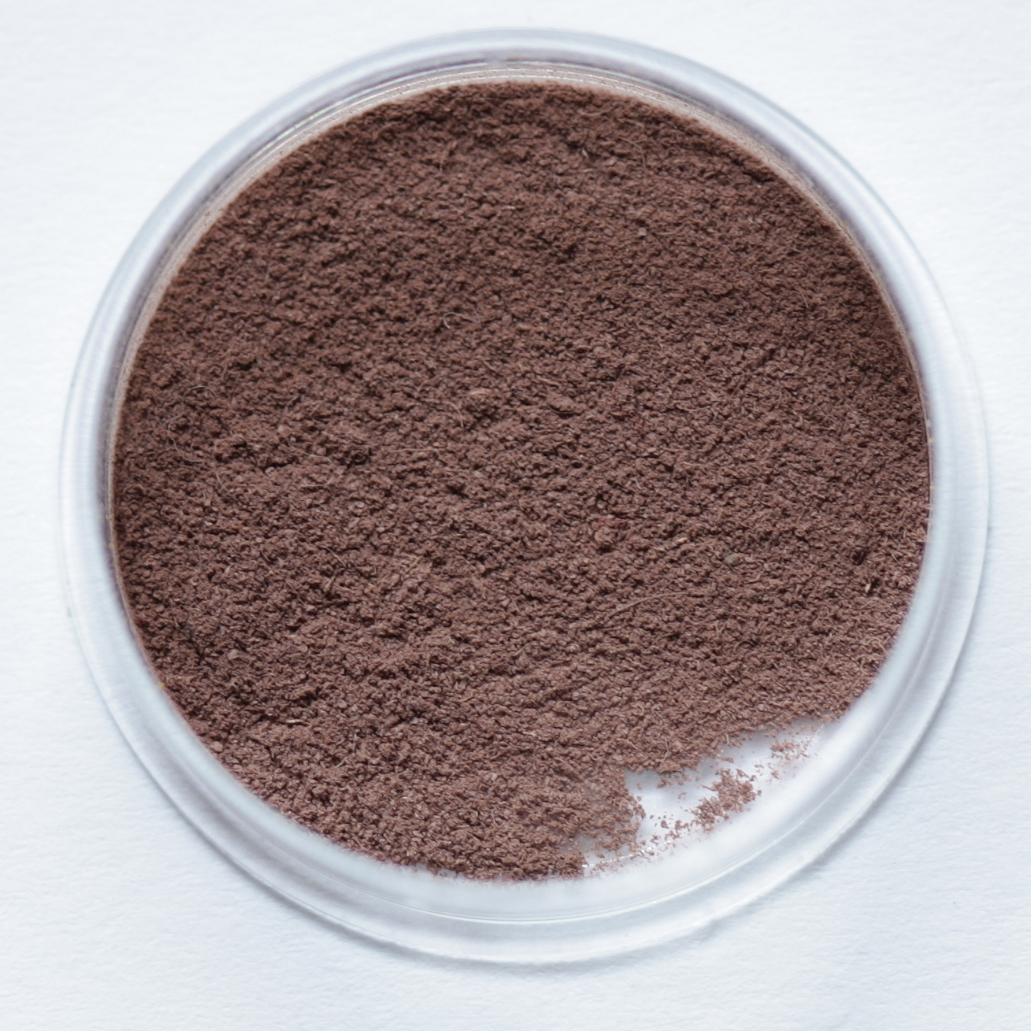 Self prepared sample of barium ferrate